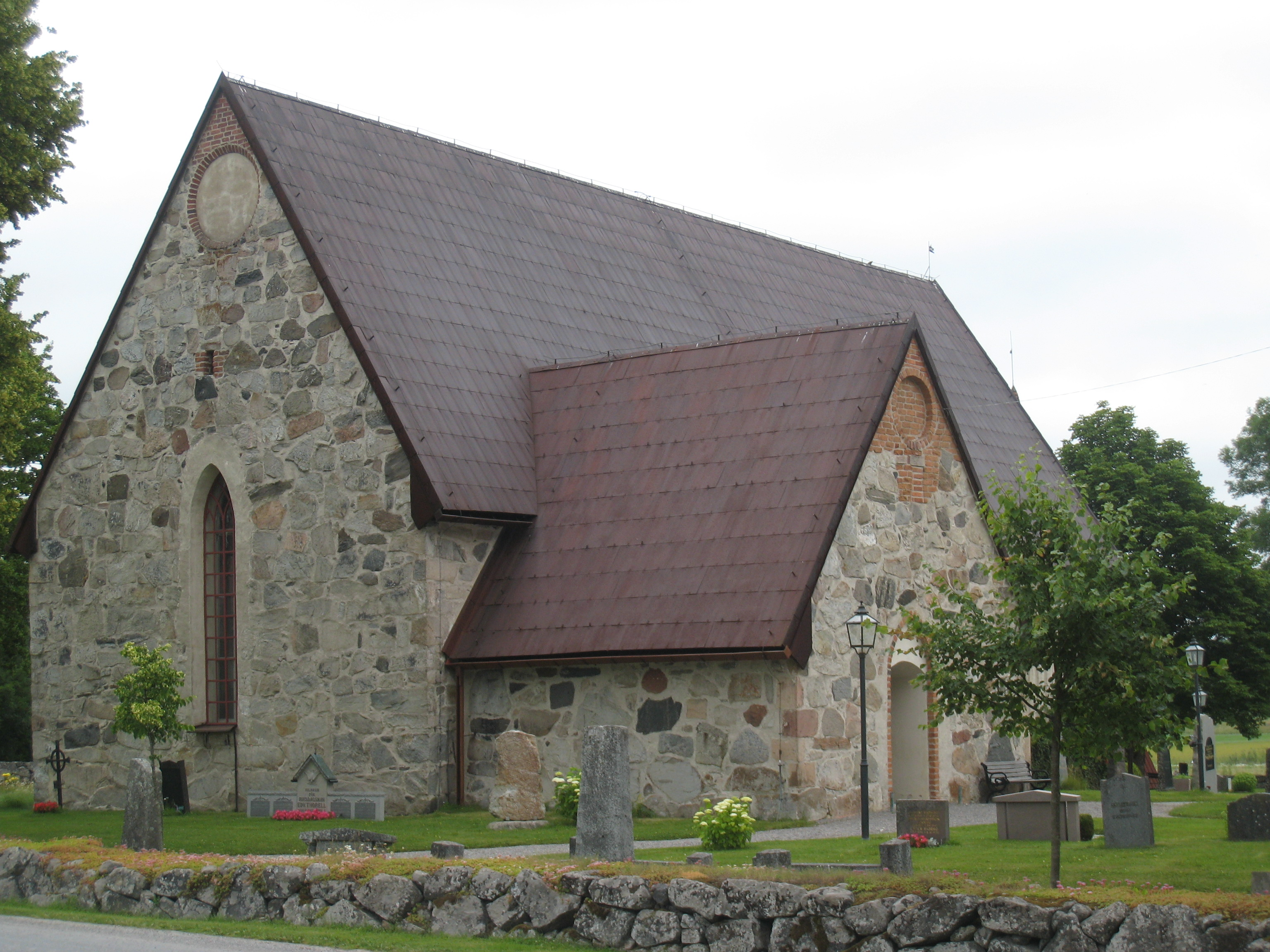 Frösunda kyrka, Vallentuna, Sweden